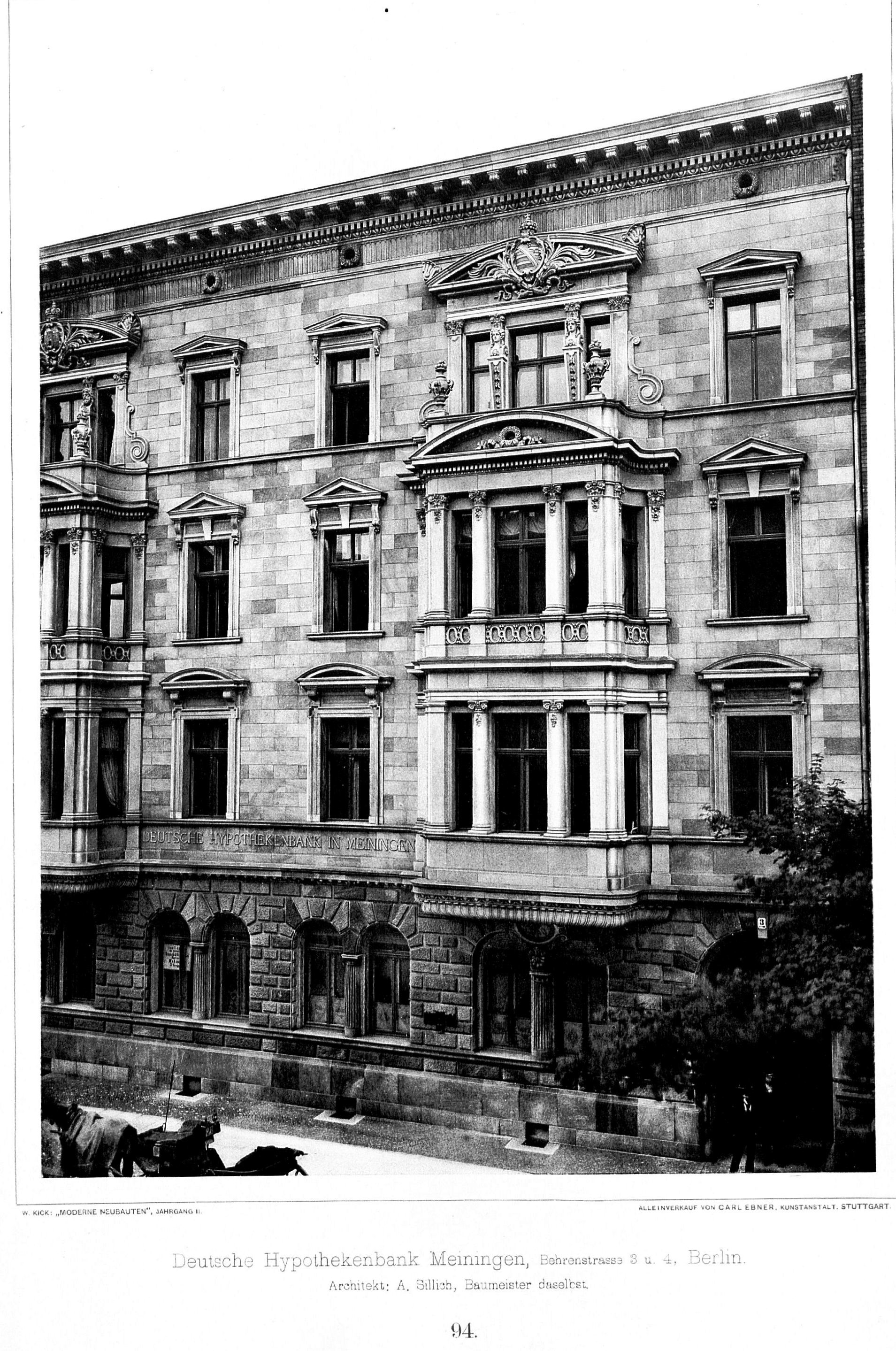 Deutsche_Hypothekenbank_Meiningen,_Behrenstrasse_3_und_4,_Berlin,_Architekt_A._Sillich,_Baumeister_Berlin,_Tafel_94,_Kick_Jahrgang_II.jpg